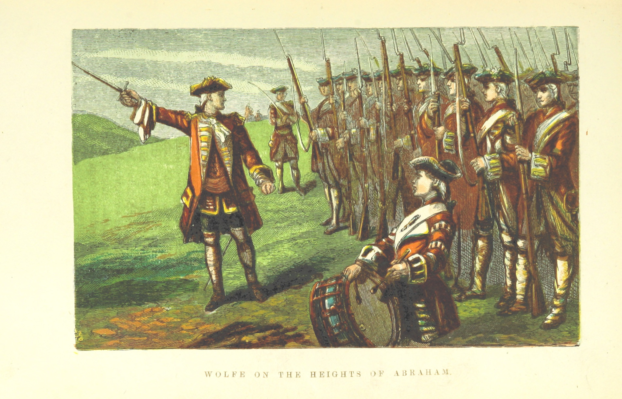 Image taken from: Title: "The Great Battles of the British Army. ... With coloured illustrations. (New edition.)" Author: LOW, Charles Rathbone. Shelfmark: "British Library HMNTS 9079.a.21." Page: 207 Place of Publishing: London Date of Publishing: 1885 Publisher: G. Routledge & Sons Issuance: monographic Identifier: 002271062 Explore: Find this item in the British Library catalogue, 'Explore'. Download the PDF for this book (volume: 0) Image found on book scan 207 (NB not necessarily a page number) Download the OCR-derived text for this volume: (plain text) or (json) Click here to see all the illustrations in this book and click here to browse other illustrations published in books in the same year. Order a higher quality version from here.